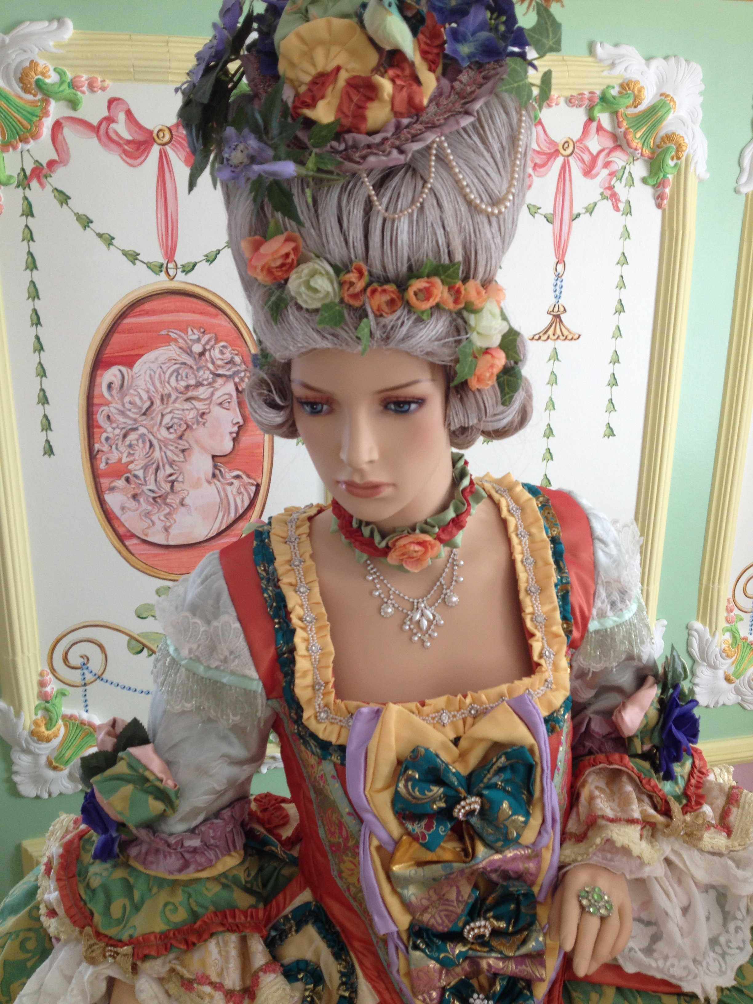 Costumes made by Ilse Wolf and Katja Morrison. Picture taken by Katja Morrison.